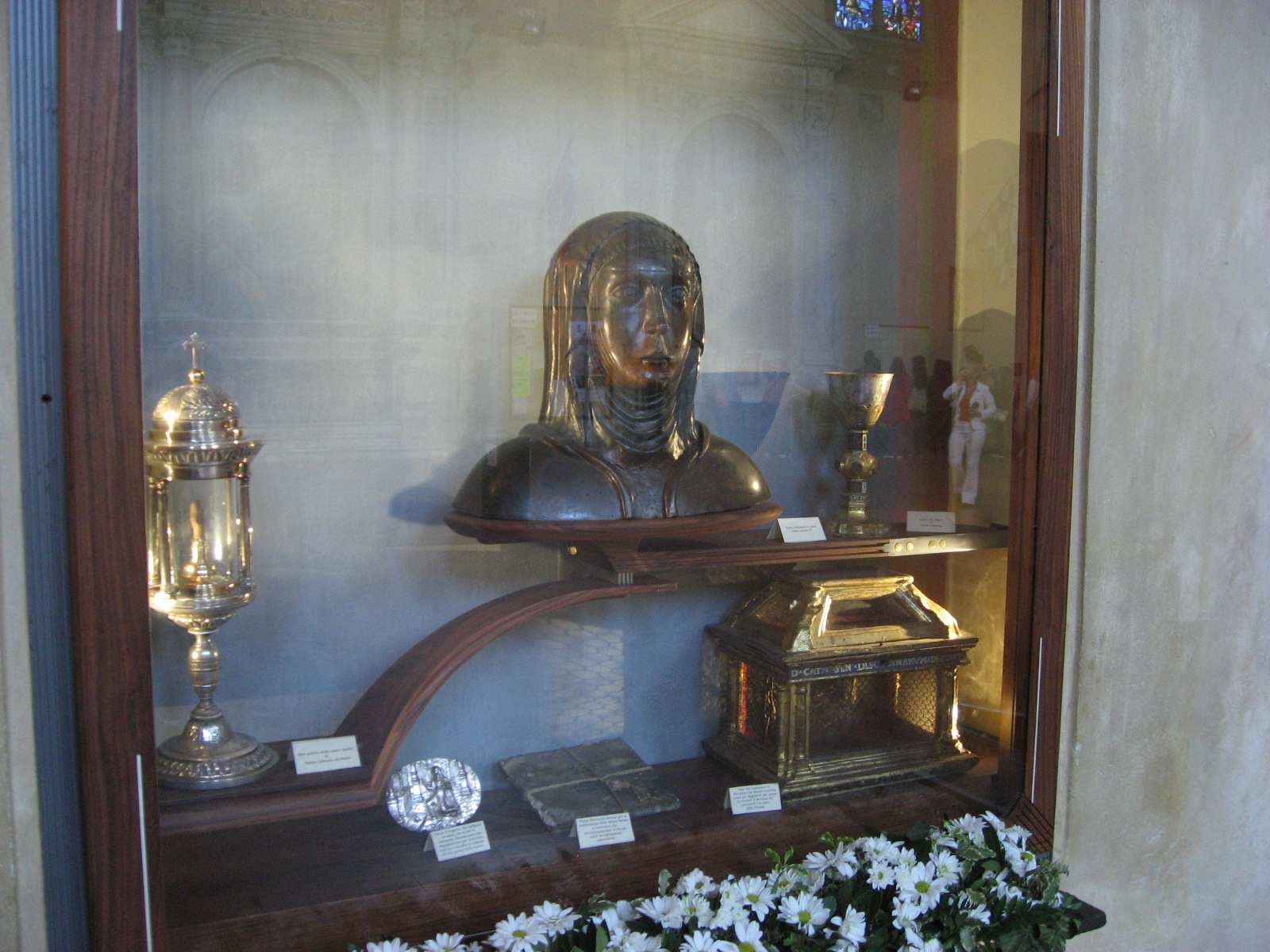 Interior of the Basilica of San Domenico (Siena).